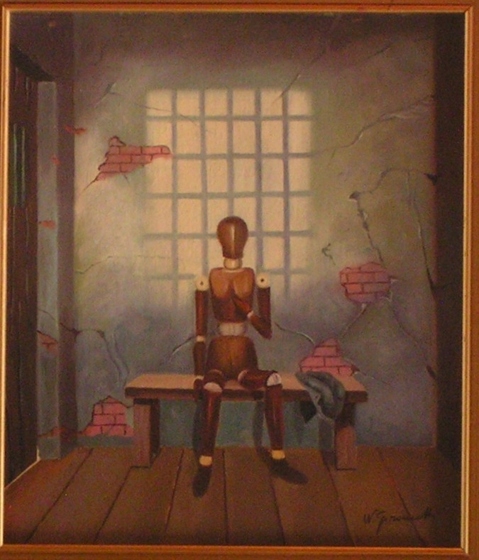 Work of the Italian painter William Girometti, title: "On remand", 1973, oil on canvas, cm. 30x35 - owned by his daughter.